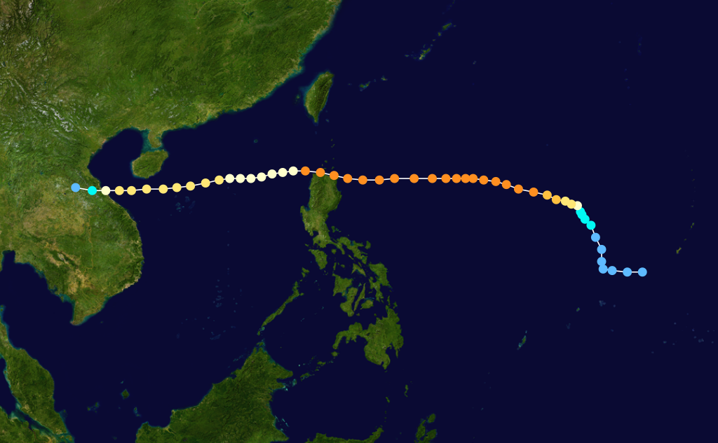 Typhoon Angela 1989 track. Uses the color scheme from the Saffir-Simpson Hurricane Scale.